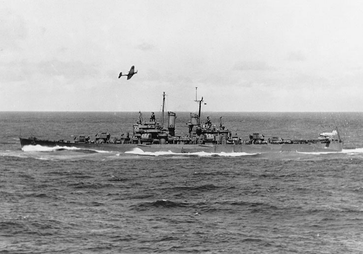 The U.S. Navy light cruiser USS Mobile (CL-63) underway in the Pacific, with an Douglas SBD-5 Dauntless aircraft flying overhead. The photo was taken during combat operations in October 1943, probably at the time of the raid on Marcus Island.